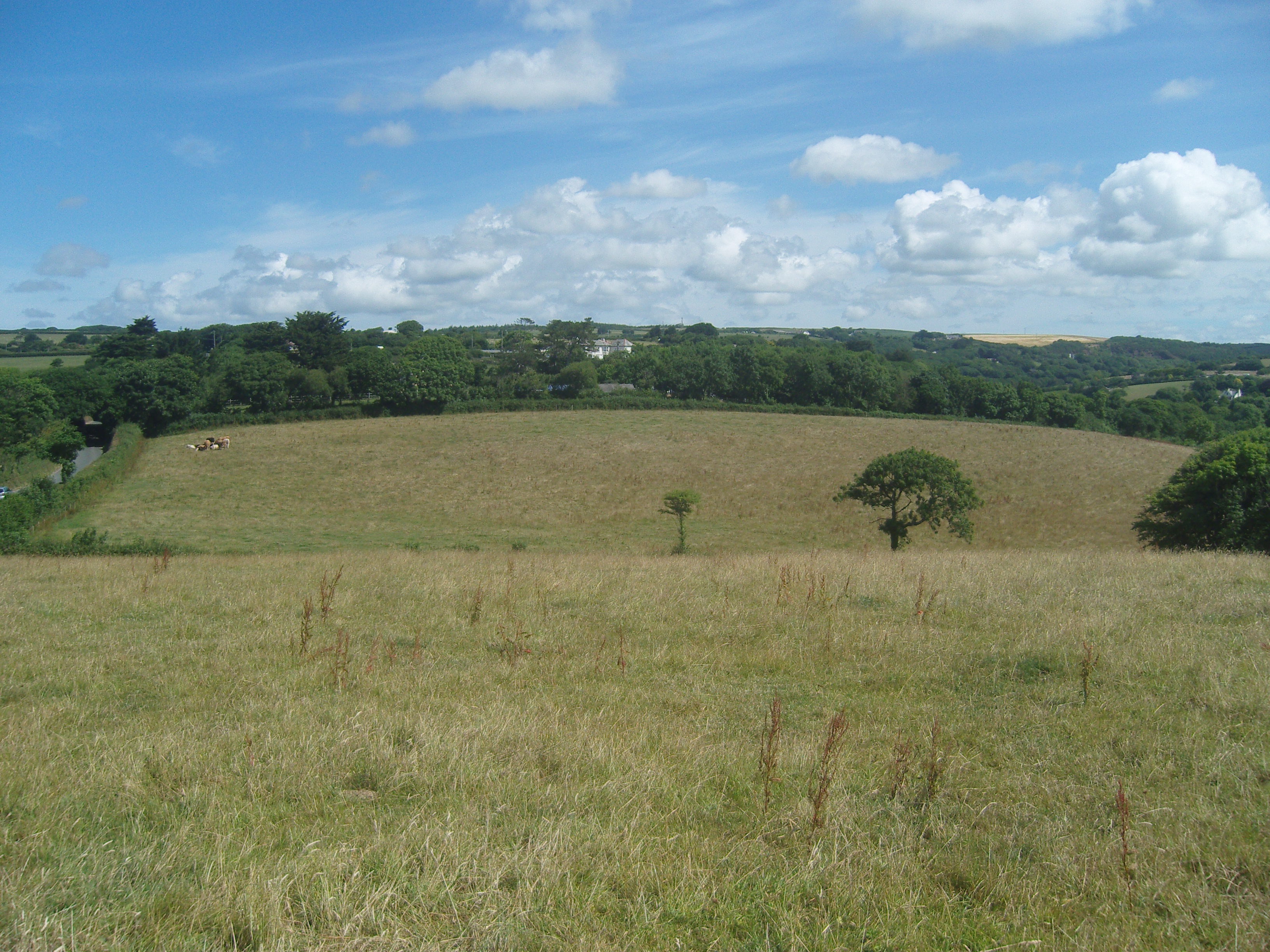 View over the battelfield of Stratton